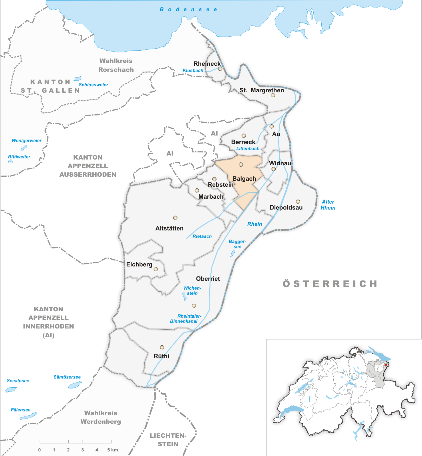 Municipality Balgach